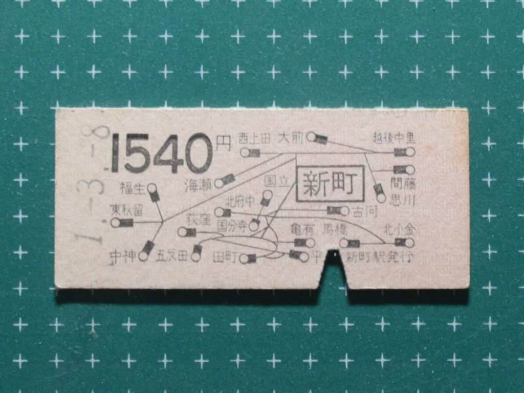 Train ticket on which fare zone of Yen 1,540 from Shimmachi Station on Takasaki Line has been described as a map